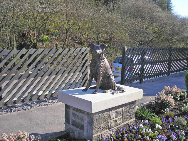 Ruswarp Ruswarp (pronounced "russup") belonged to Graham Nuttall the first Secretary of the Friends of the Settle-Carlisle Line (FOSCL) which was formed to campaign against the proposed closure of the line. Ruswarp's paw print was put on his own objection as a fare-paying passenger. The line was finally saved in 1989. In January 1990 Graham and Ruswarp went missing in the Welsh mountains. On 7th April 1990 a lone walker found Graham's body, by a mountain stream. Nearby was Ruswarp, so weak that the 14-year-old dog had to be carried off the mountain. He had stayed with his master's body for eleven winter weeks. The RSPCA awarded Ruswarp their Animal Medallion and collar for 'vigilance' and their Animal Plaque for 'intelligence and courage'. He survived long enough to attend Graham's funeral.